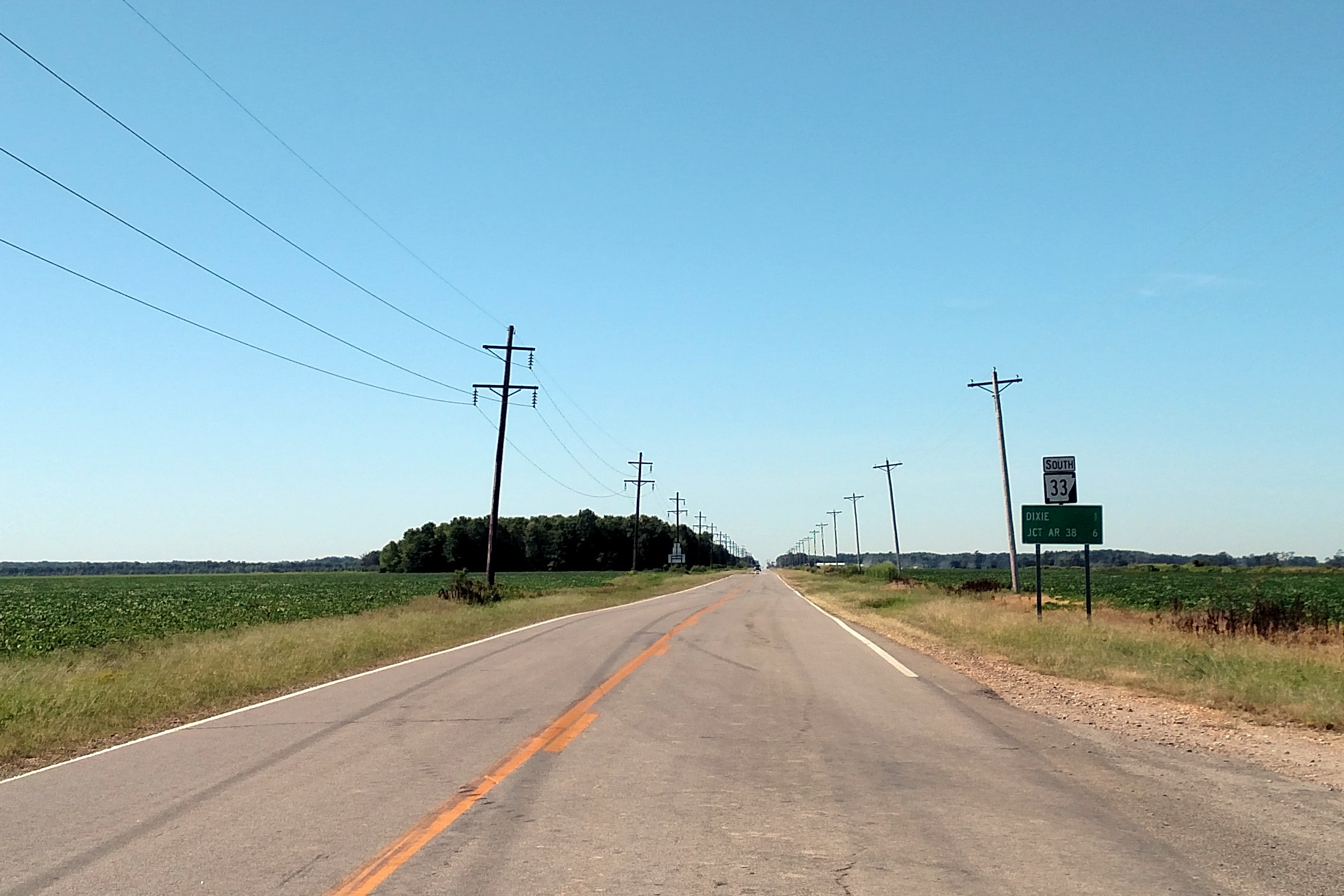 Highway 33 first reassurance marker south of Gregory